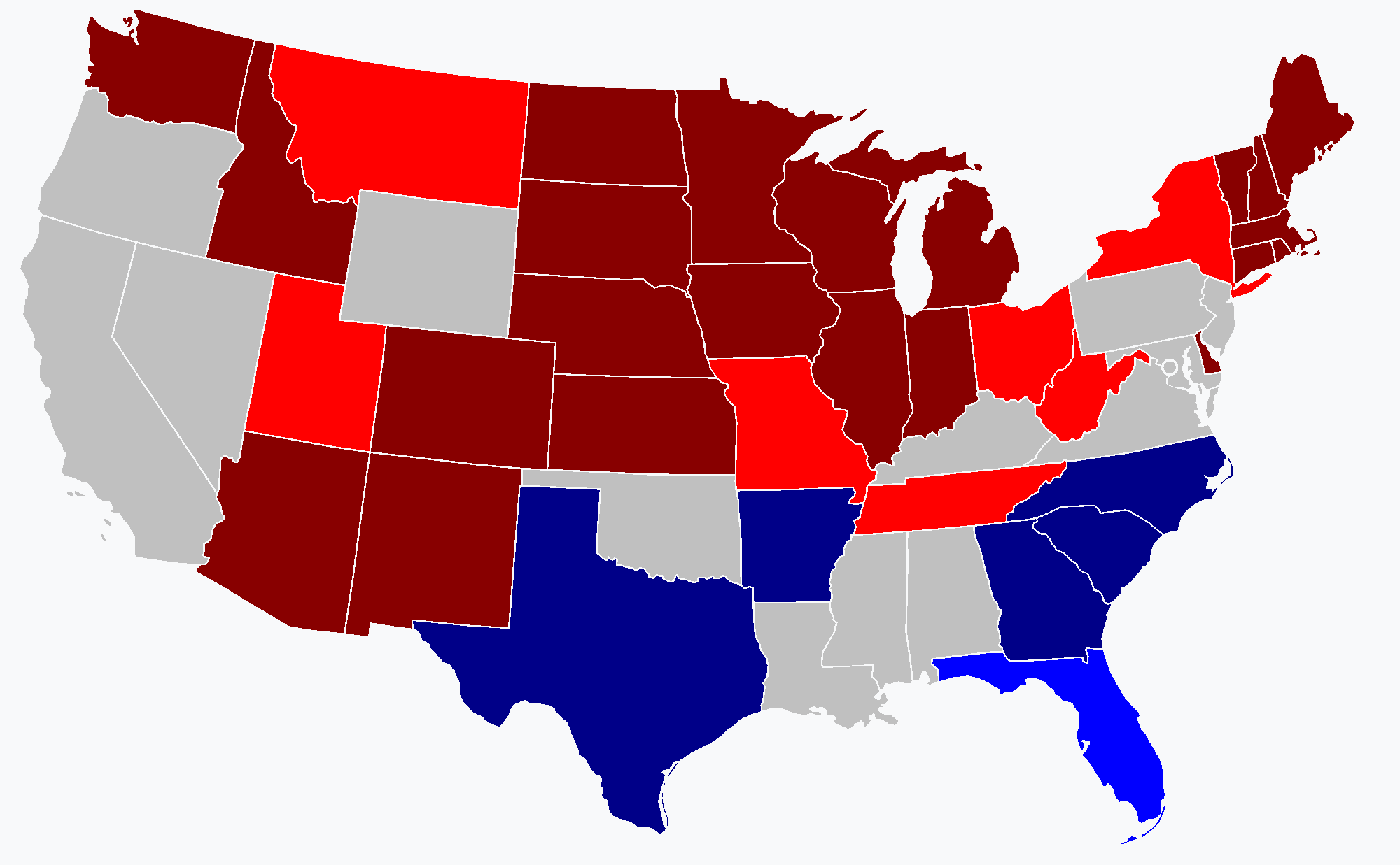 A map showing the results of the 1920 United States Gubernatorial elections